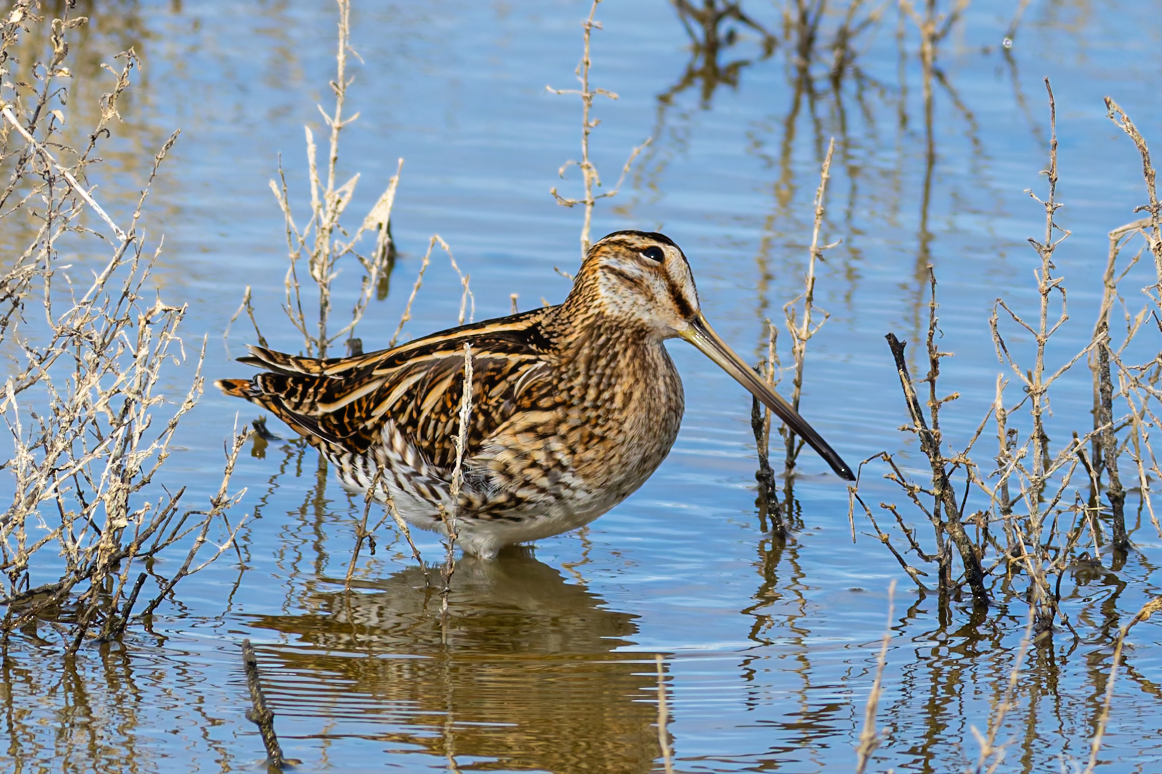 Common snipe (Gallinago gallinago), S'Albufera, Mallorca, Spain